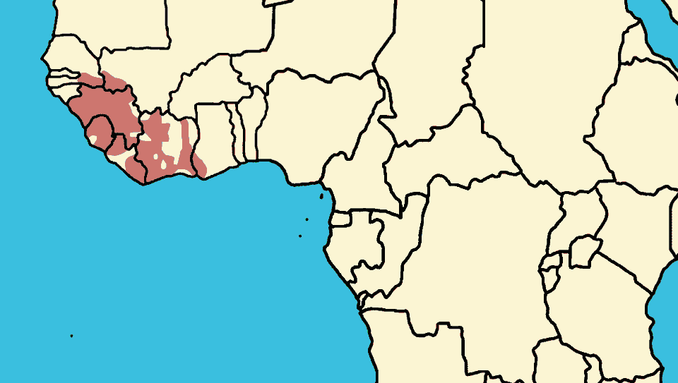 Modification of the map Image:Pan troglodytes area.png made by Luís Fernández García.